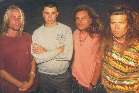 Excel members in the late 80's.